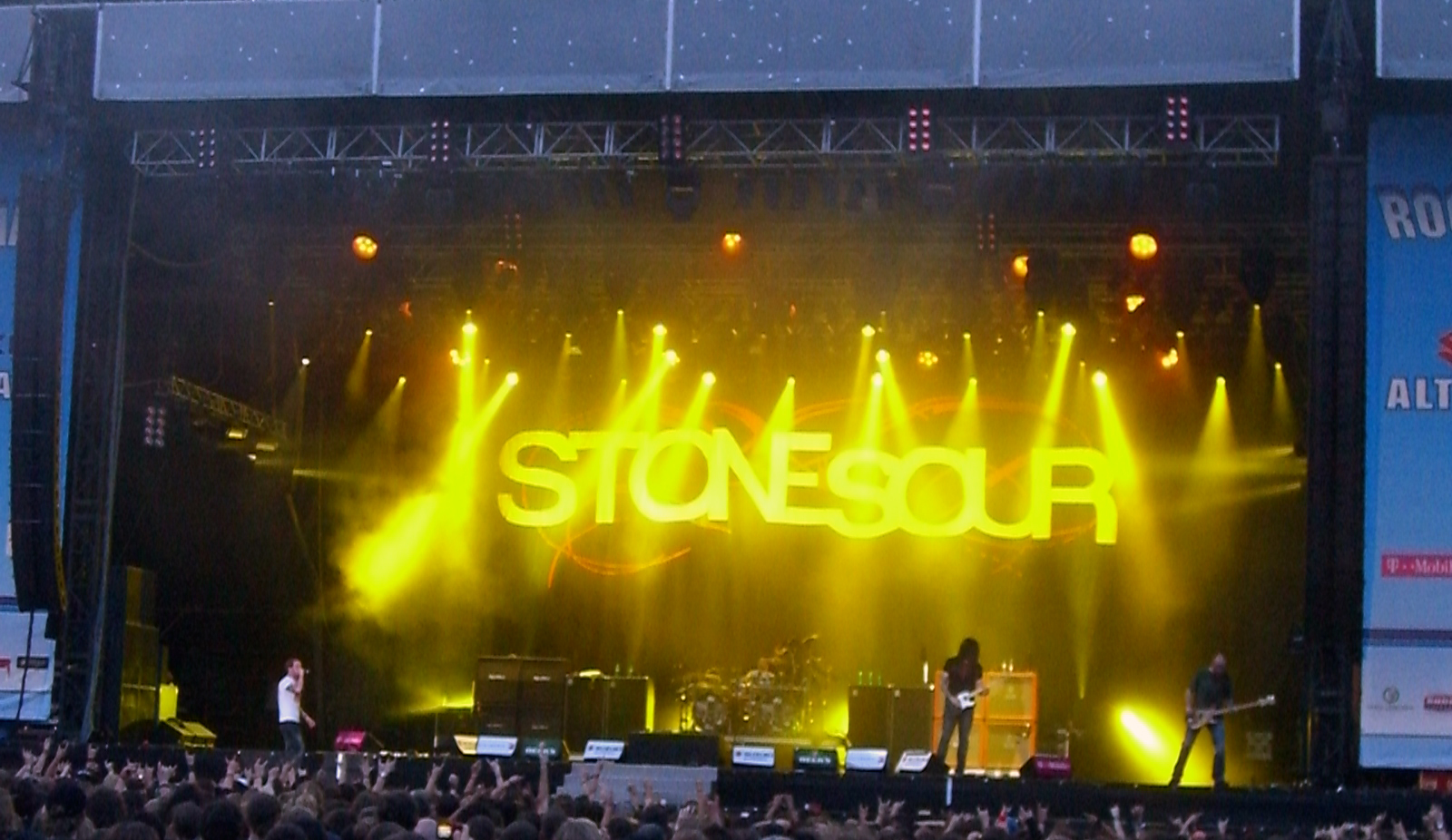 Stone Sour at Rock im Park 2007